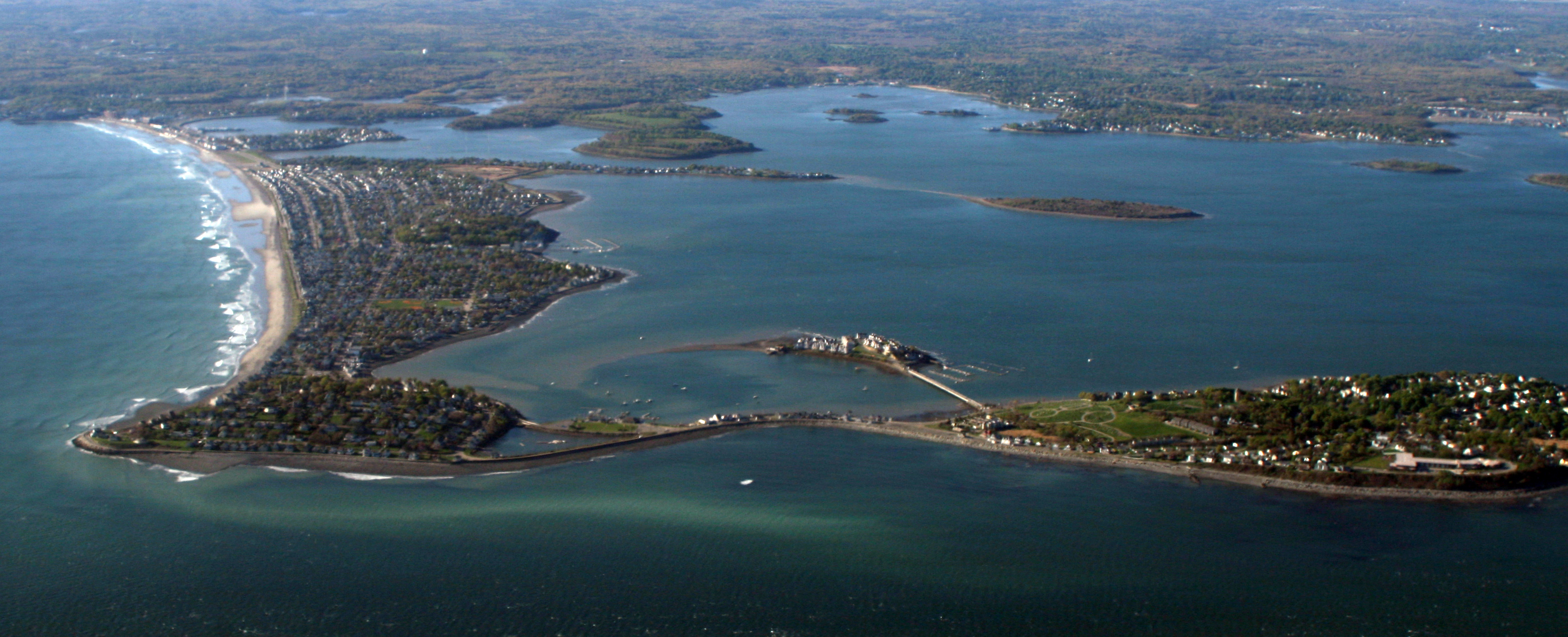 Hull, Massachusetts, April 2010.